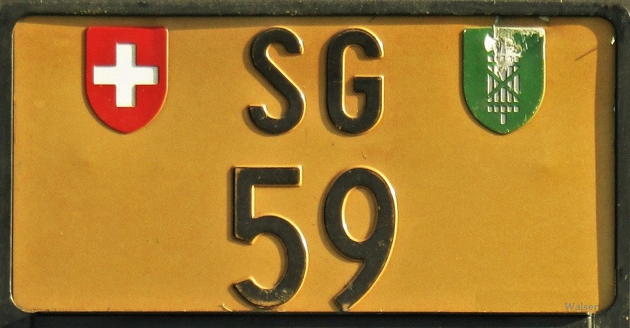 Exceptional vehicle registration Switzerland